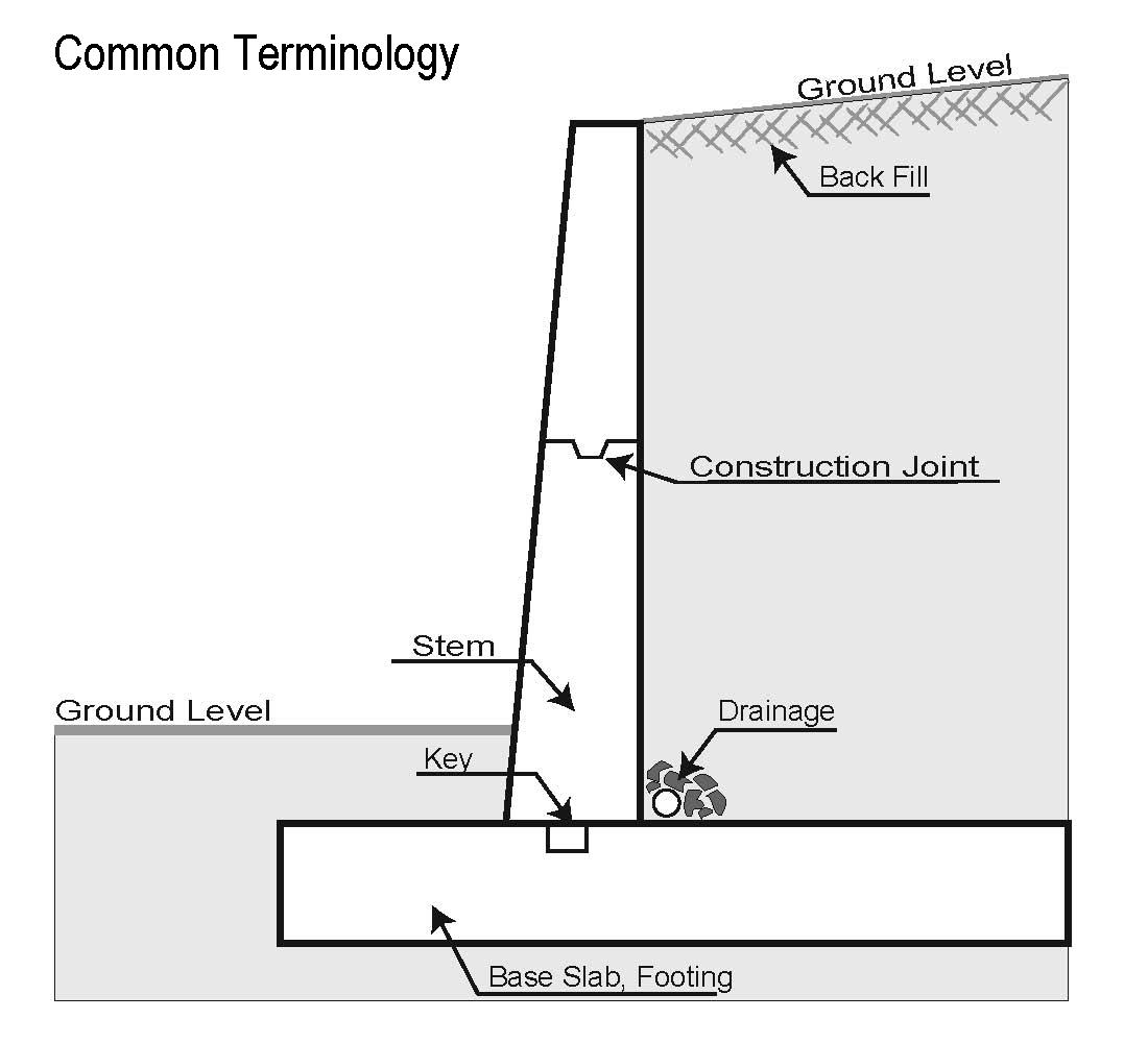 Author, Kapil chaudhary. Created using Adobe Illustrator